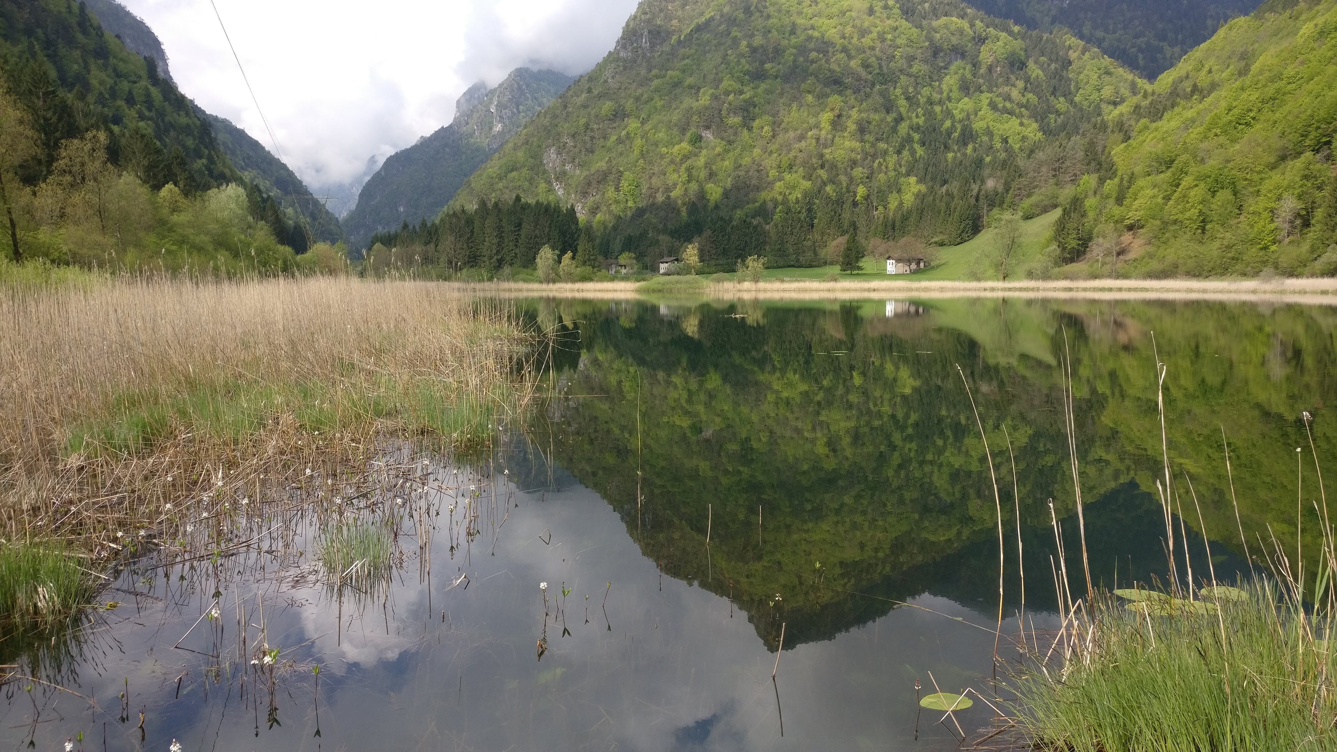 Lake d'Ampola - Val di Ledro -Trento - Italy